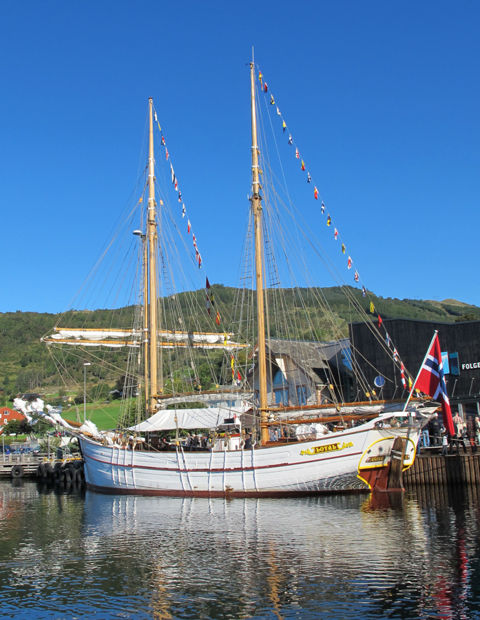 "Loyal" in Rosendal in 2017